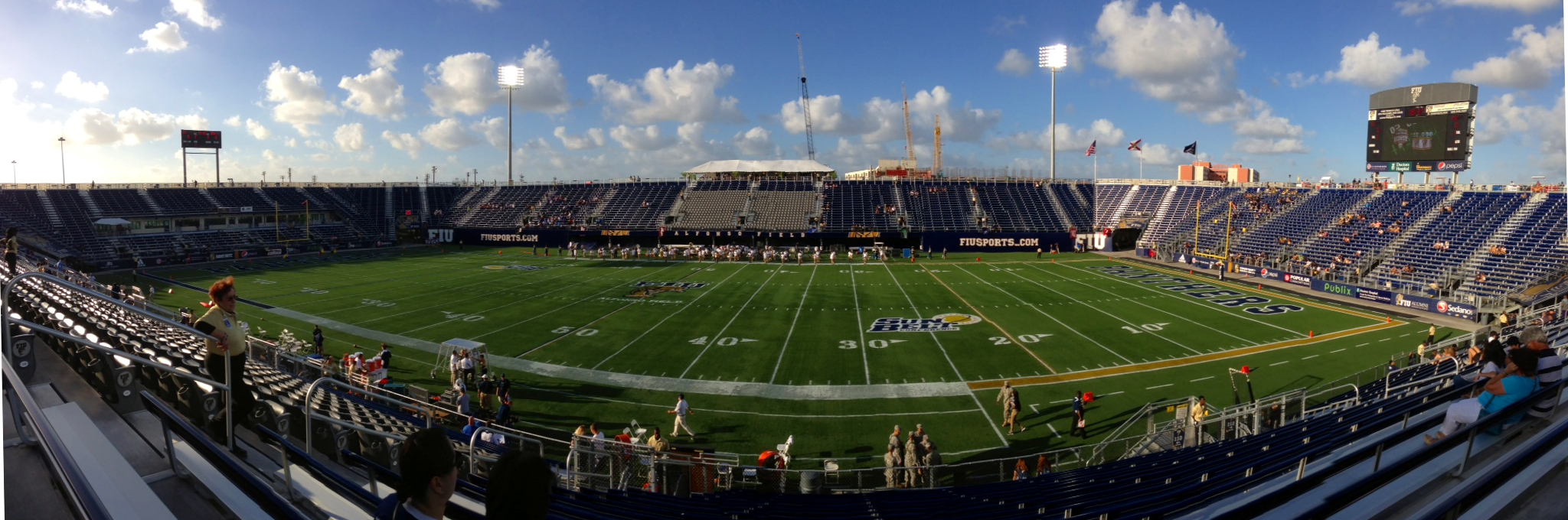 Panoramic picture of FIU Stadium in Miami, Florida. Taken on 10/13/2012.